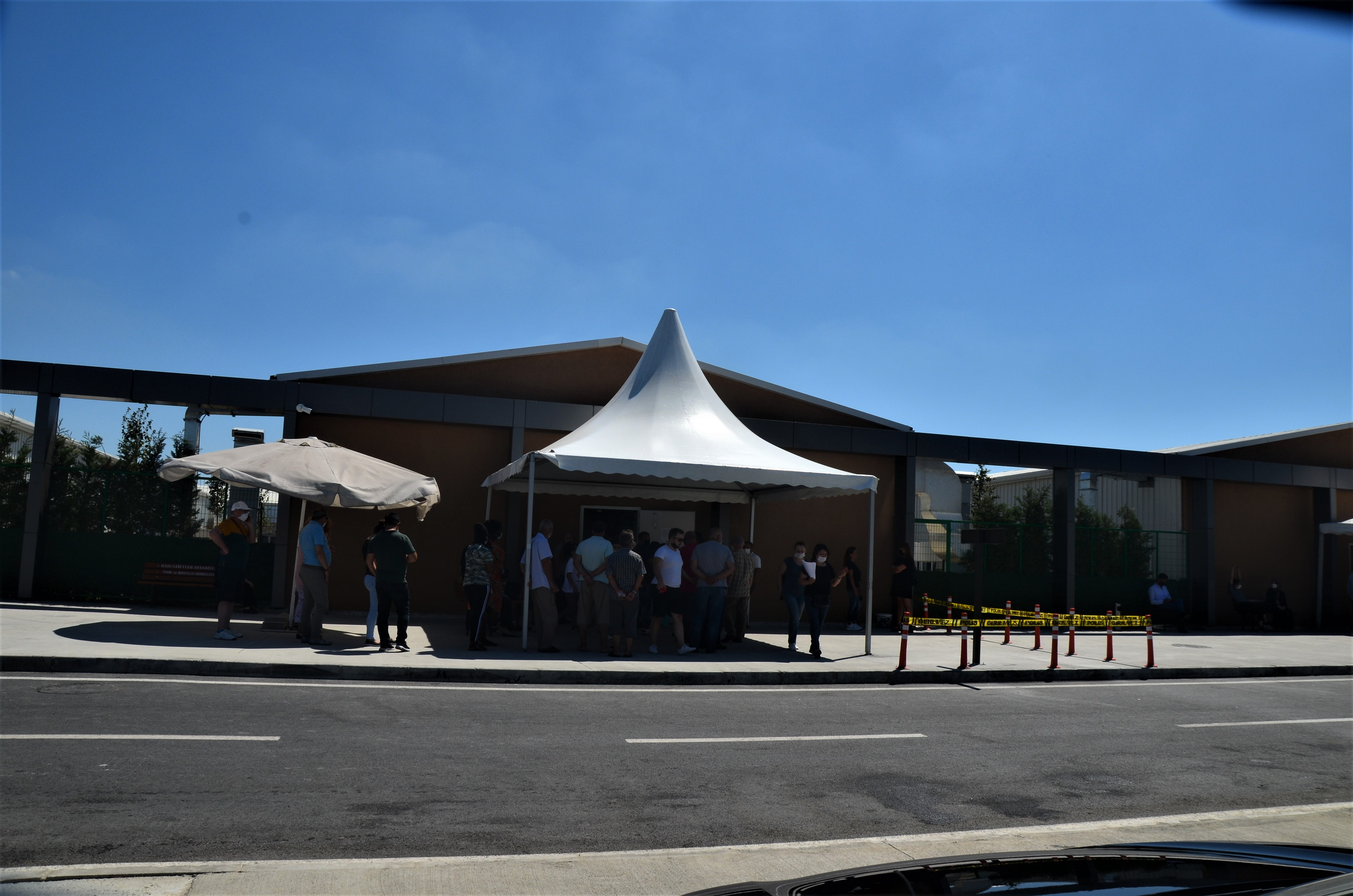 Patiencs waiting for COVID-19 testing at the entrance of Yeşilköy Prof. Dr. Murat Dilmener Emergency Hospital in Yeşilköy, Istanbul, Turkey